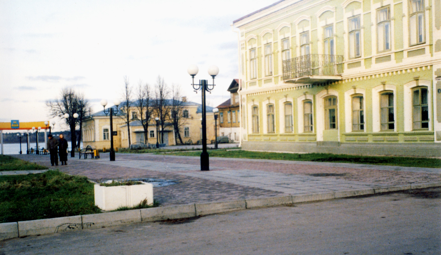 East side of pedestrian street